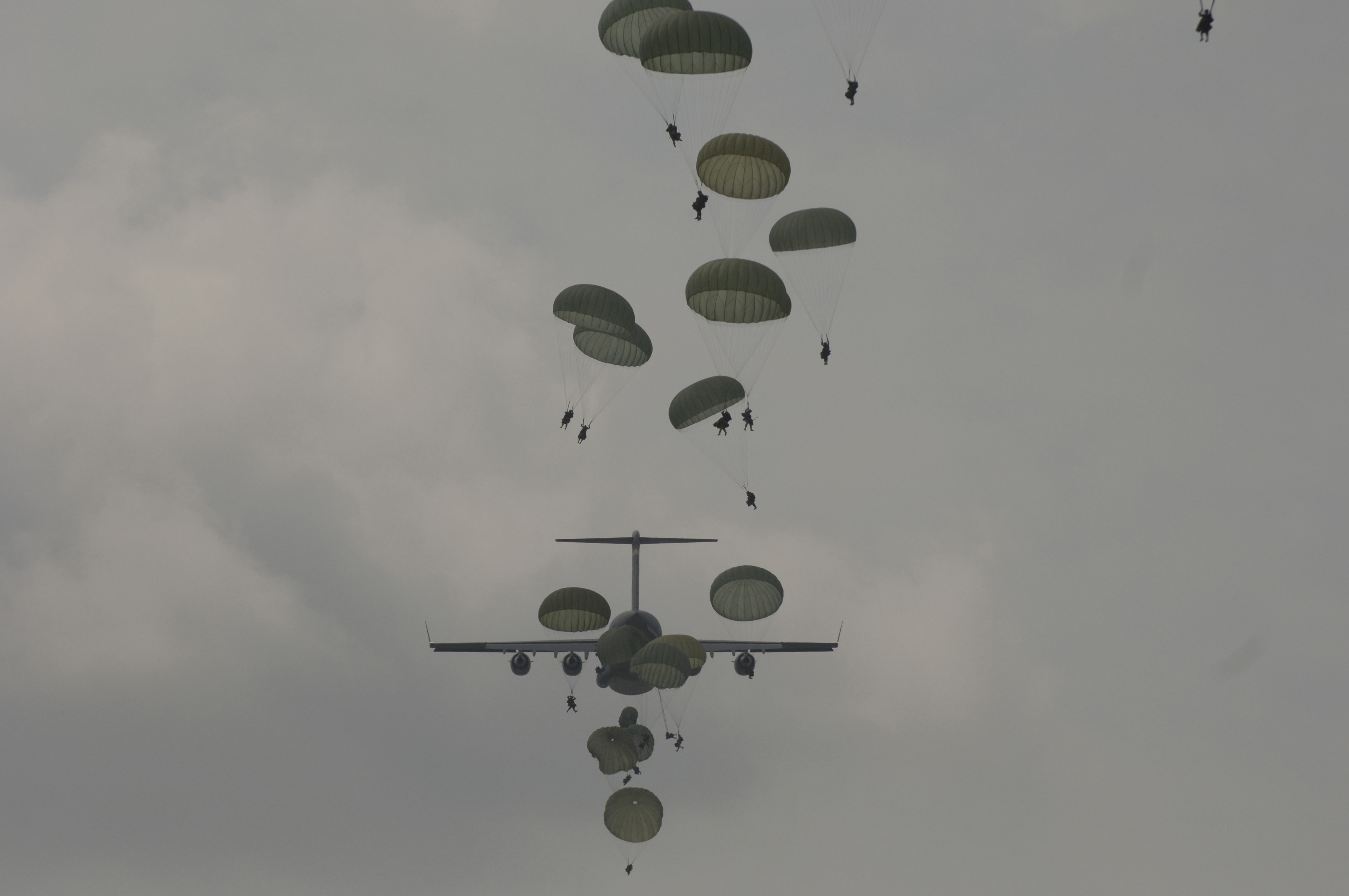 Description: U.S. Army Soldiers from the 20th Engineer Battalion jump from a C-17 Globemaster III aircraft during a joint forcible entry exercise at Fort Bragg, N.C., Aug. 21, 2006. The exercise is a U.S. Army and Air Force joint airdrop exercise designed to enhance inter-Service cohesiveness.